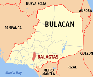 Map of Bulacan showing the location of Balagtas